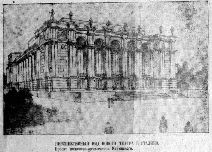 Original project of Donetsk Opera by architect Ludwig Kotovskyi